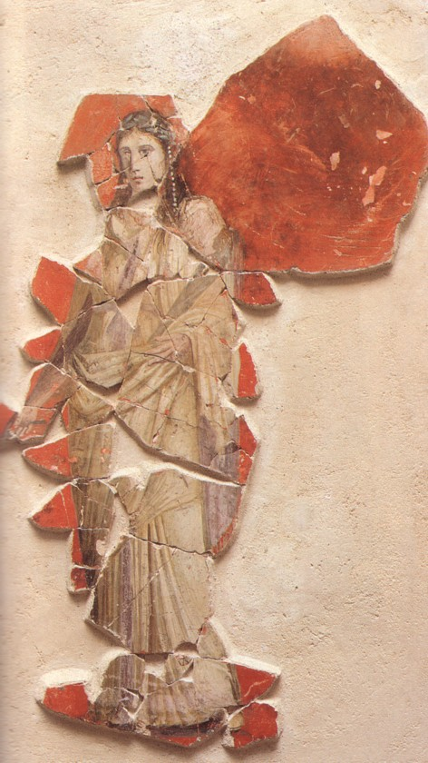 Fresco of Iphigenie Taurisca from Room AA/15, City on Magdalensberg, 1st century AD, now in: Landesmuseum für Kärnten, Klagenfurt.